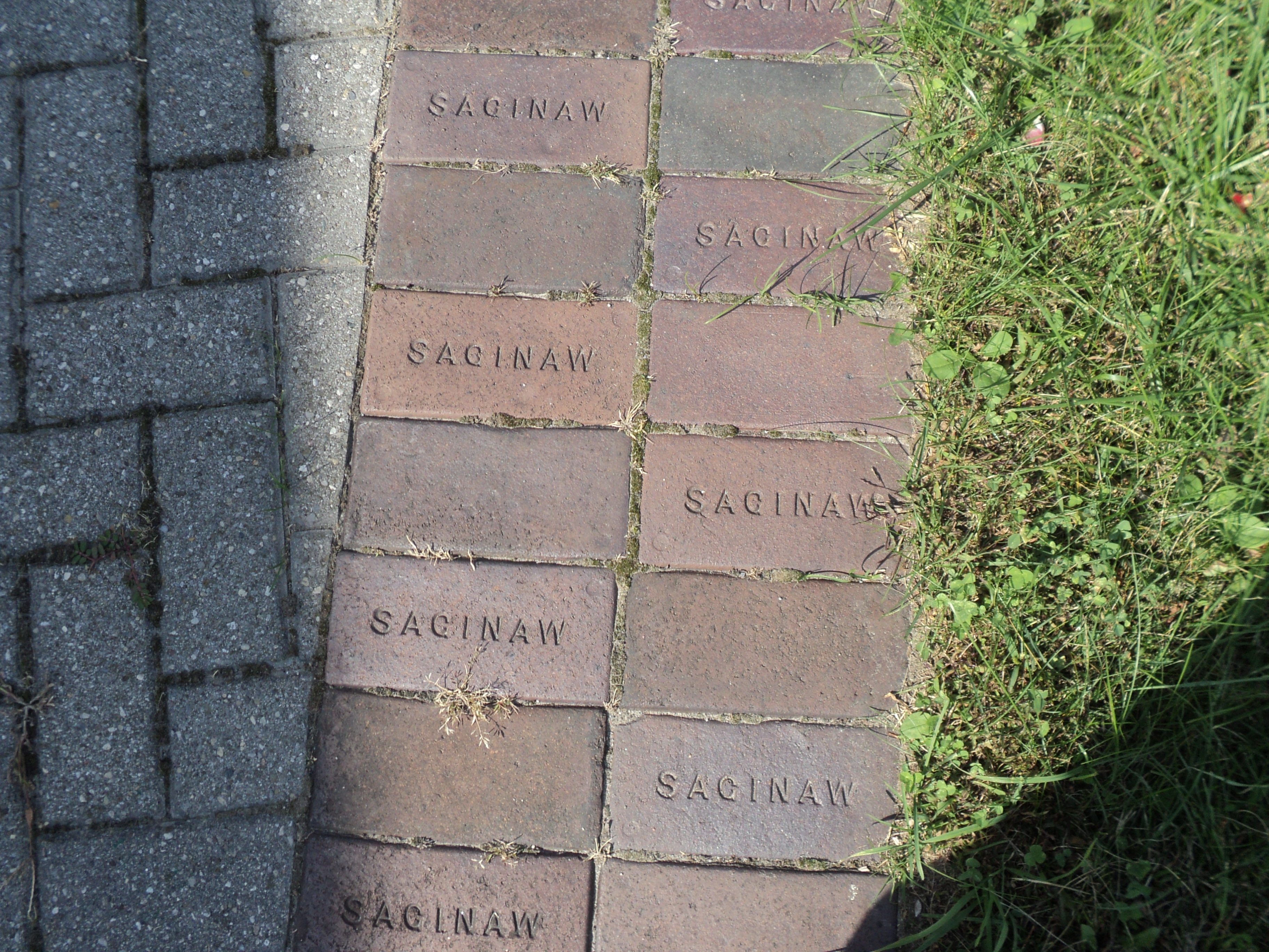 Saginaw bricks. I also saw these at the Orillia Train Station, these seem to be common along old Grand Trunk/CNR stations.